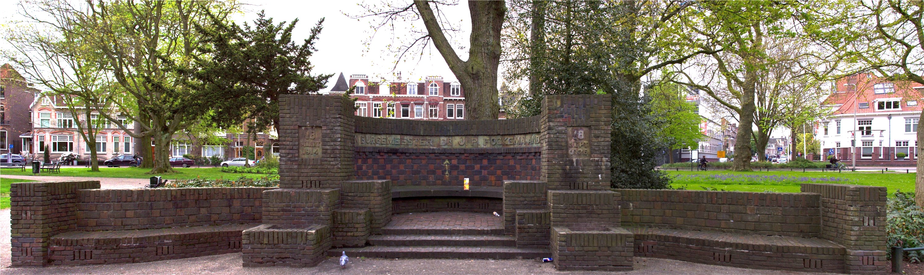 a monument at Wilhelminapark - panorama.